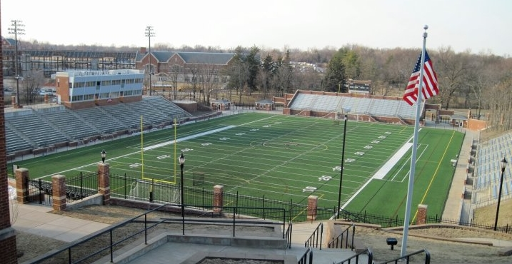 Harlen C. Hunter Stadium on the campus of Lindenwood University. Picture taken from hill above stadium.